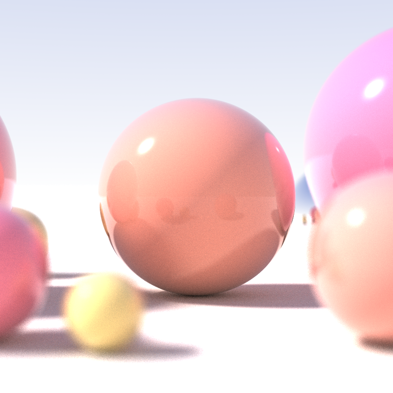 Recursive raytracing of a sphere, which incorporates the effects of diffuse interreflection, limited depth-of-field and area light sources. Generated using a custom Java renderer.